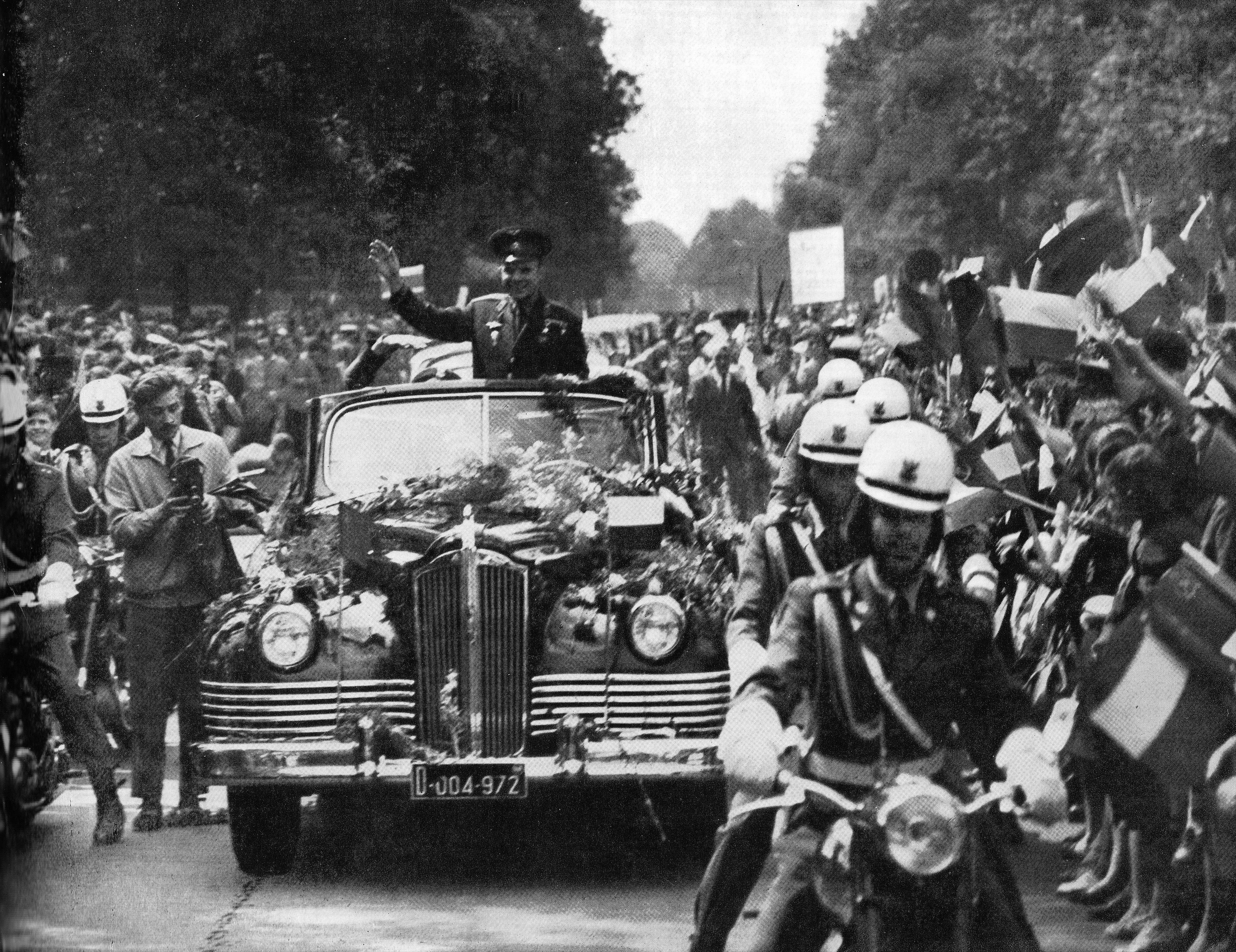 Yuri Gagarin in Warsaw